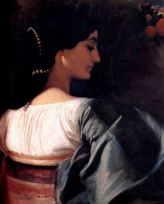 An Italian Lady